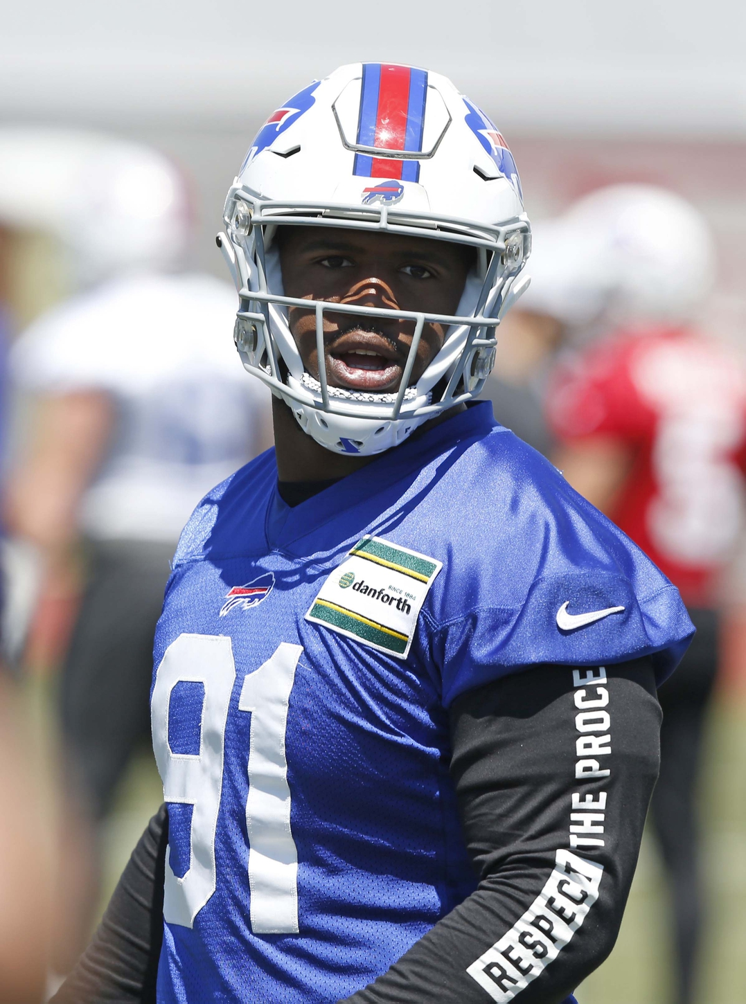 ed oliver at his rookie minicamp